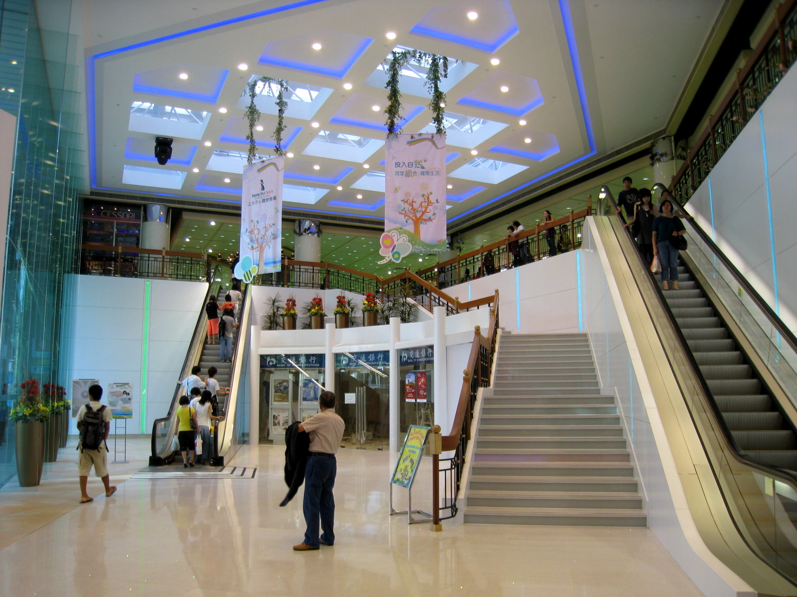 Sheung Shui Centre Interior 上水中心